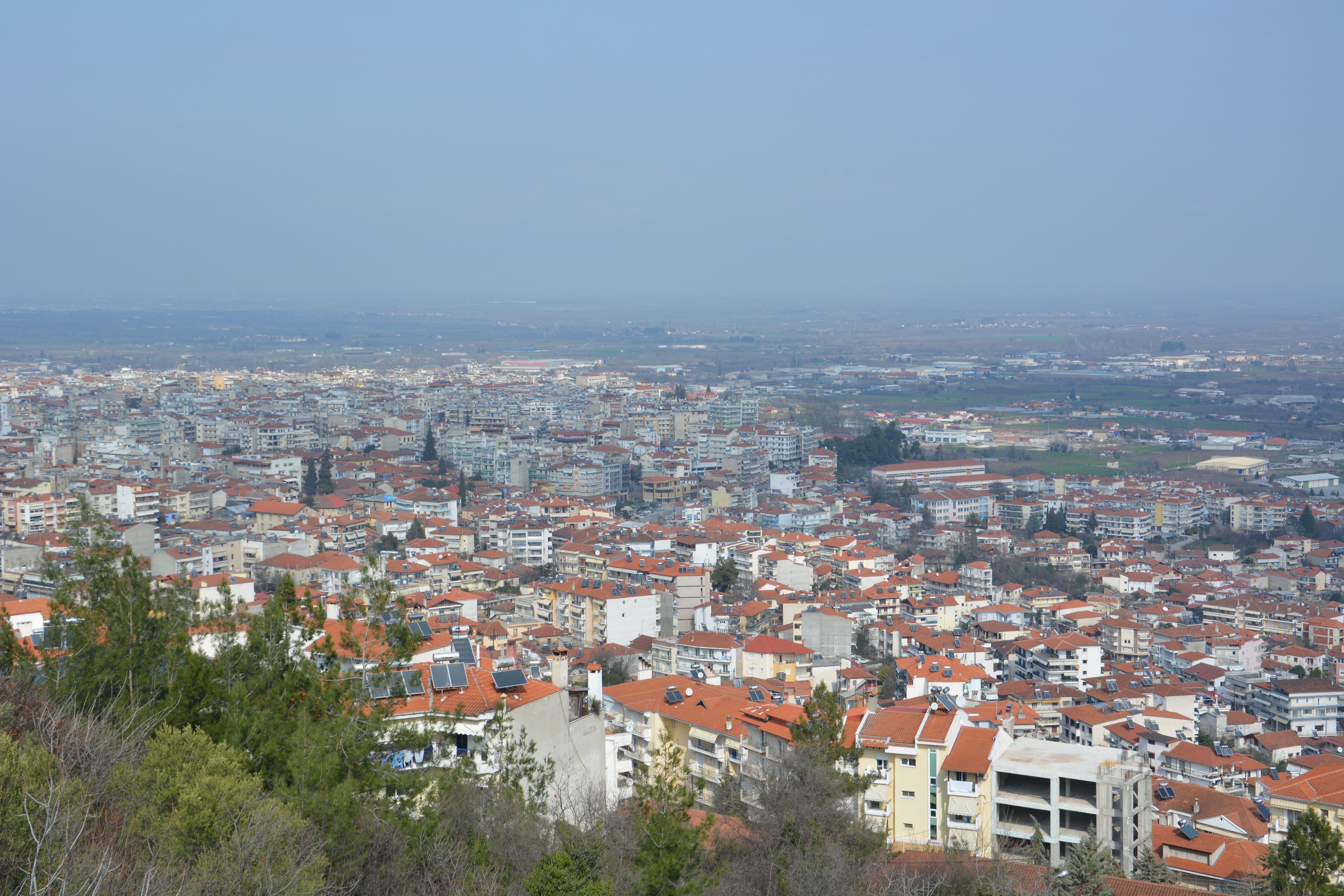 View of Veria from the Vikela Hill - February 2014